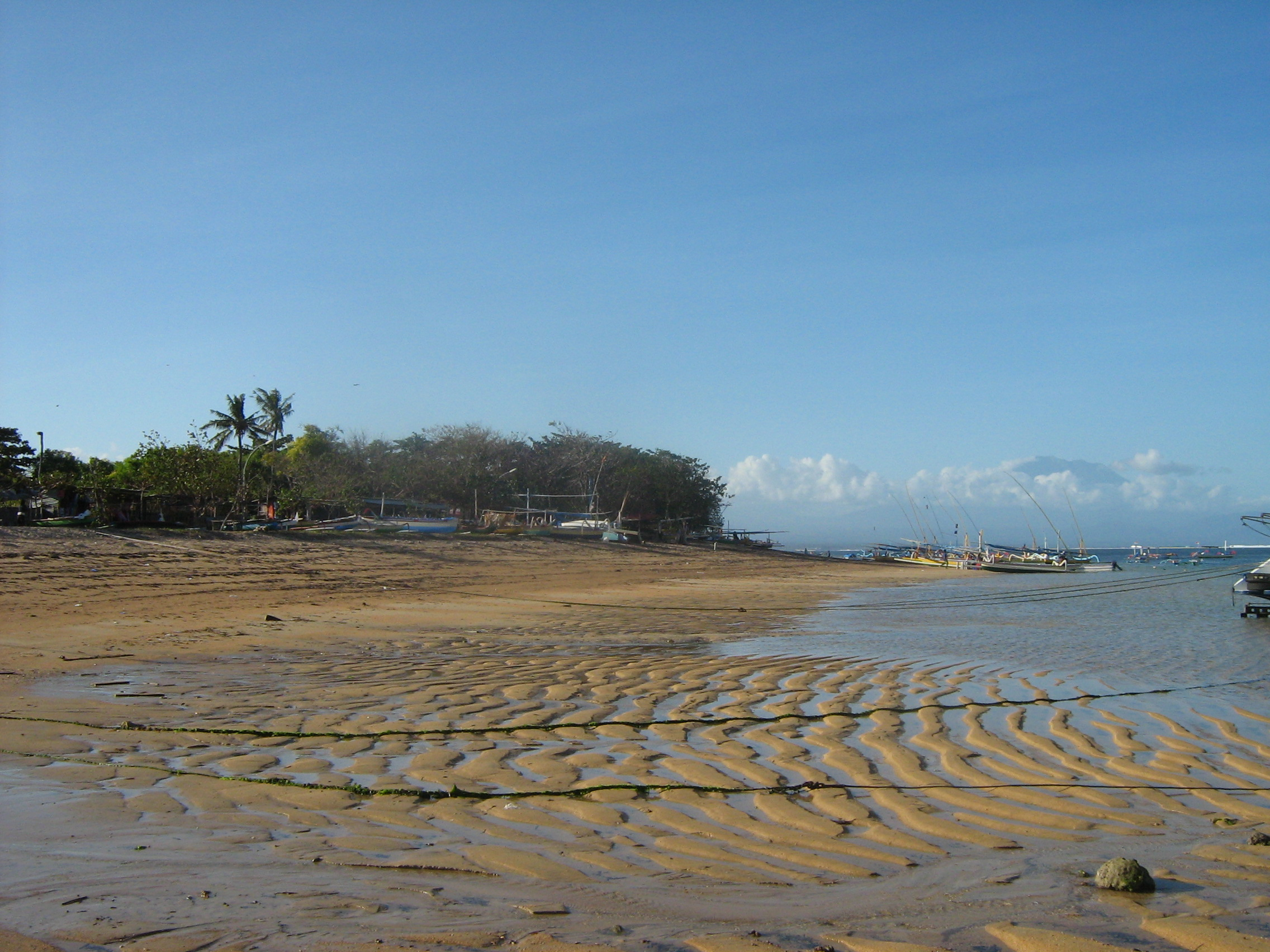 Sanur Beach in the afternoon